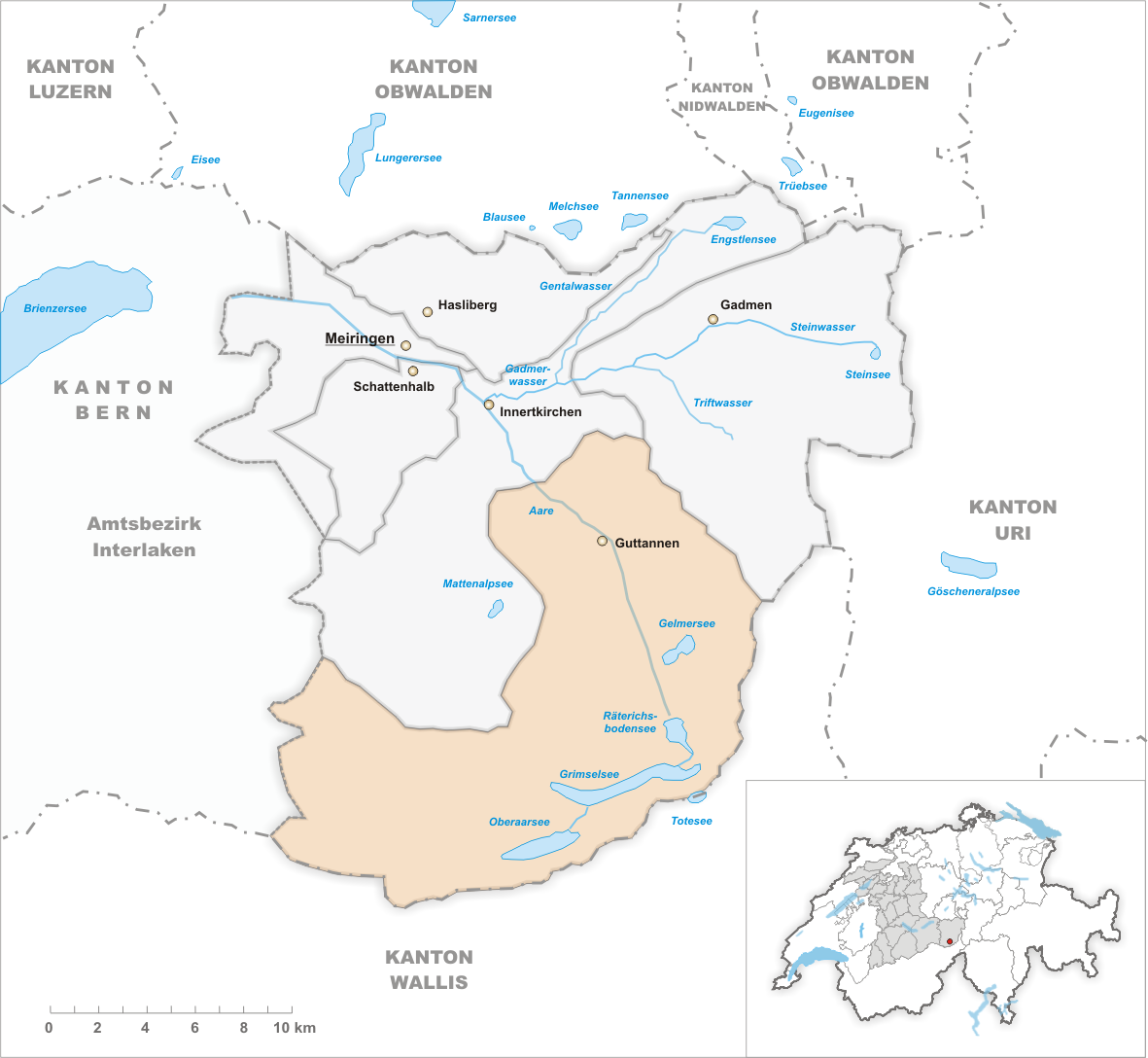 Municipality Guttannen